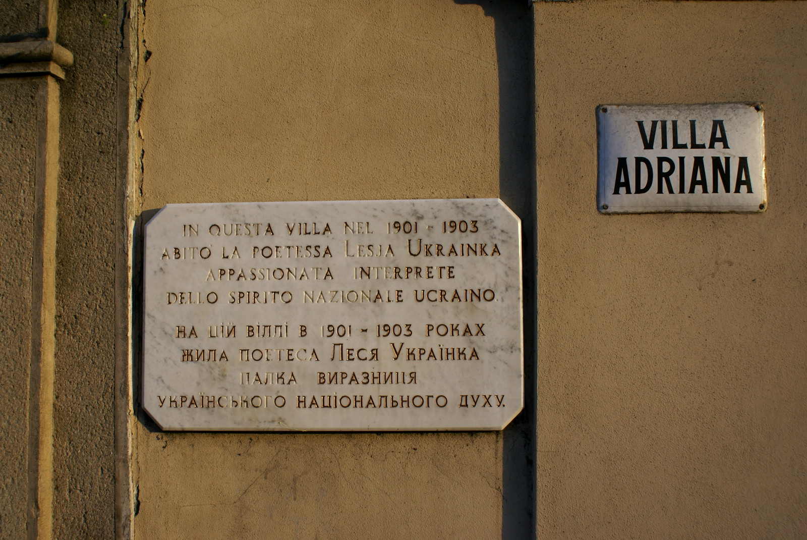 Sign near the Villa Adriana in Sanremo (Italy), where Lesya Ukrainka lived for 2 years